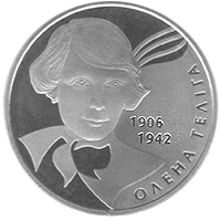 Coin of Ukraine